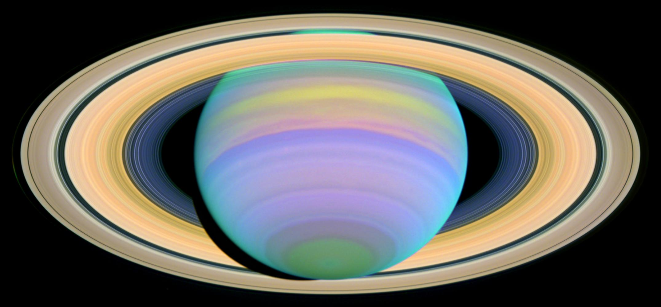 This Hubble Space Telescope ultraviolet image of Saturn was taken when the planet's rings were at a maximum tilt of 27 degrees toward Earth. Saturn experiences seasonal tilts away from and toward the Sun, much the same way Earth does. This happens over the course of its 29.5-year orbit. This means that approximately every 30 years, Earth observers can catch their best glimpse of Saturn's south pole and the southern side of the planet's rings. By examining the hazes and clouds present in this image, researchers can learn about the dynamics of Saturn's atmosphere. Scientists gain insight into the structure and gaseous composition of Saturn's clouds. For example, smaller aerosols are visible only in this ultraviolet image, because they do not scatter or absorb visible or infrared light, which have longer wavelengths. For more information, visit: Credit: NASA and E. Karkoschka (University of Arizona)